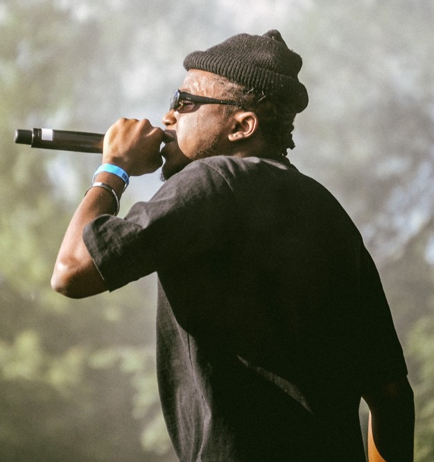 Kirk Knight performing at the TIME Festival on August 6, 2016.